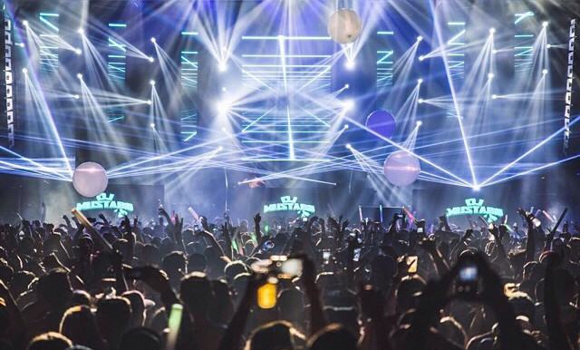 DJ Mustard Concert With Lasers